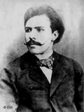 Mirza Jahangir Khan, Founder-Editor of the weekly newspaper Sur-e Esrafil and Iranian Constitutional Revolutionary. He was executed following Mohammad Ali Shah's coup d'état in June 1908.